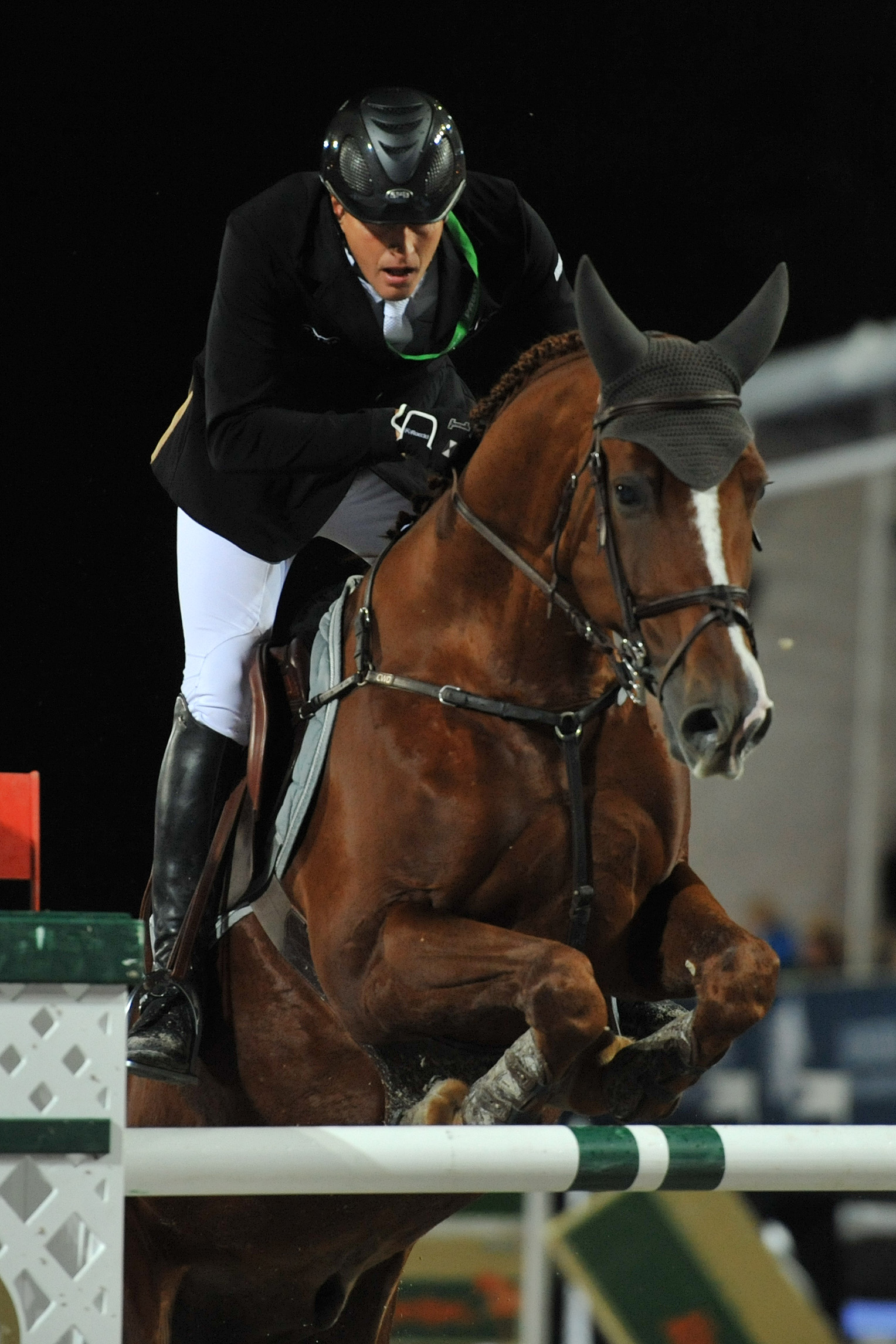 Vienna Masters am 21. September 2013 Longines Global Champions Tour Marc Houtzager (NED) auf Sterrehof's Uppity